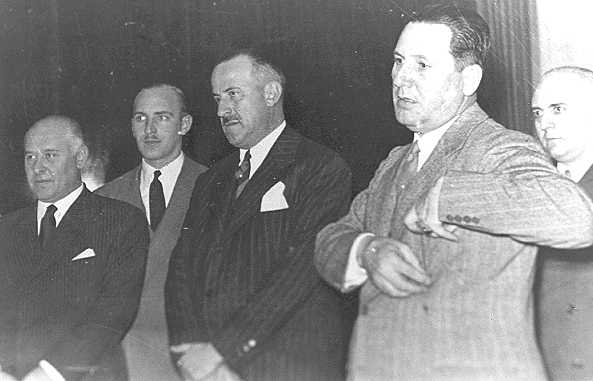 The Director of the Information Division (División de Informaciones), of the Argentine Office of the Presidency (Executive Power, Presidencia de la Nación) Rodolfo Freude (second from the left) with Juan Perón. (Archivo General de la Nación)